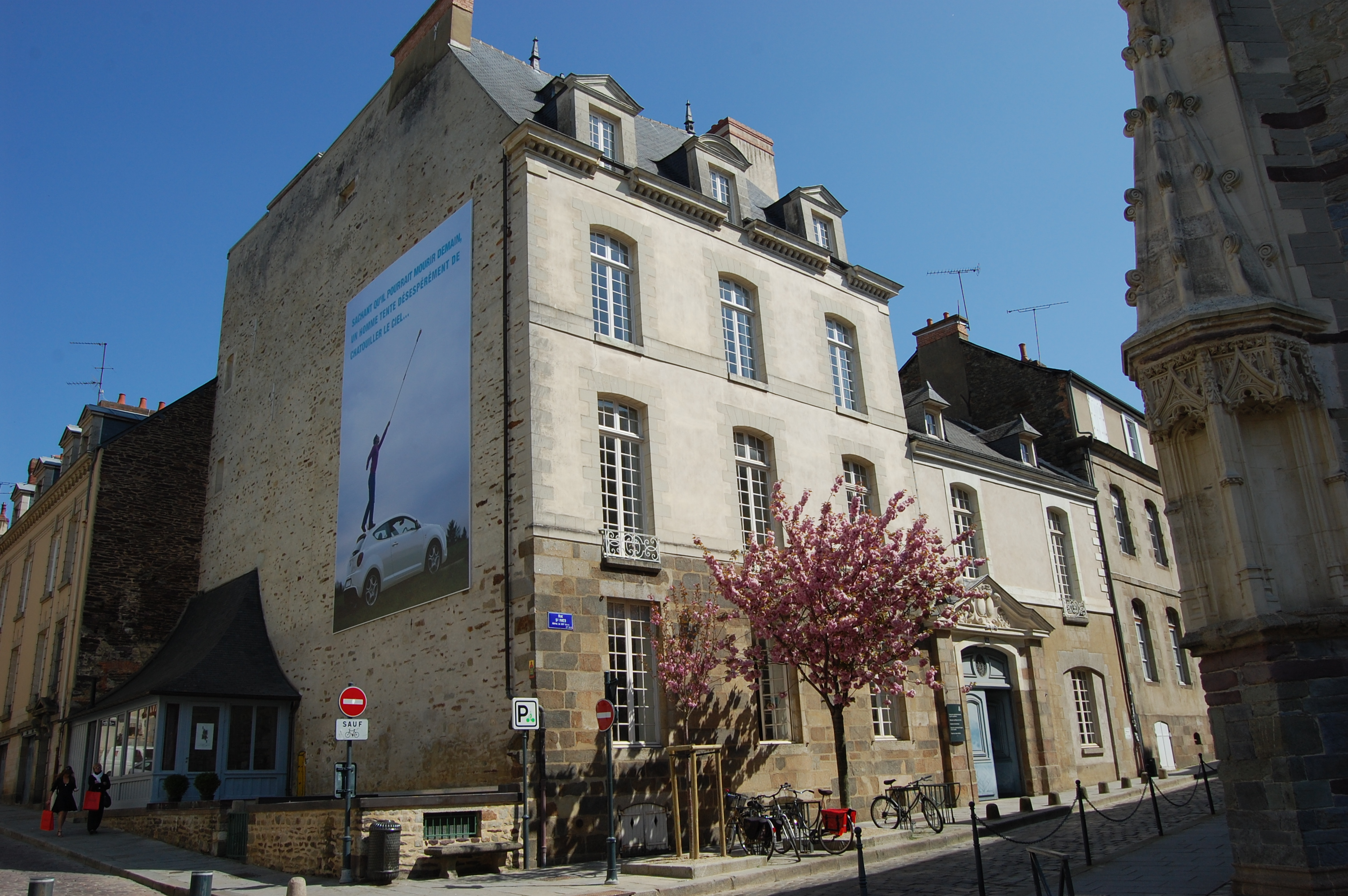 Former students home "maison des étudiants" - 14 rue Saint-Yves à Rennes